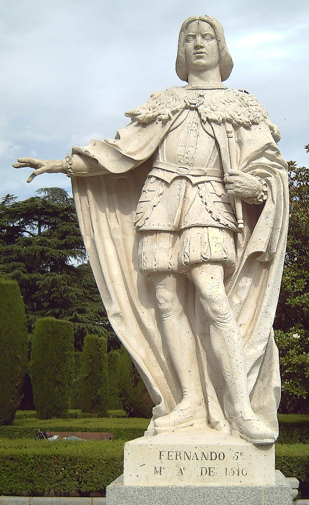 Statue of Ferdinand II of Aragon (or Ferdinand V of Castile), the Catholic (1452–1516), at the Sabatini Gardens in Madrid (Spain). Sculpted in white stone by Juan de León between 1750 and 1753.